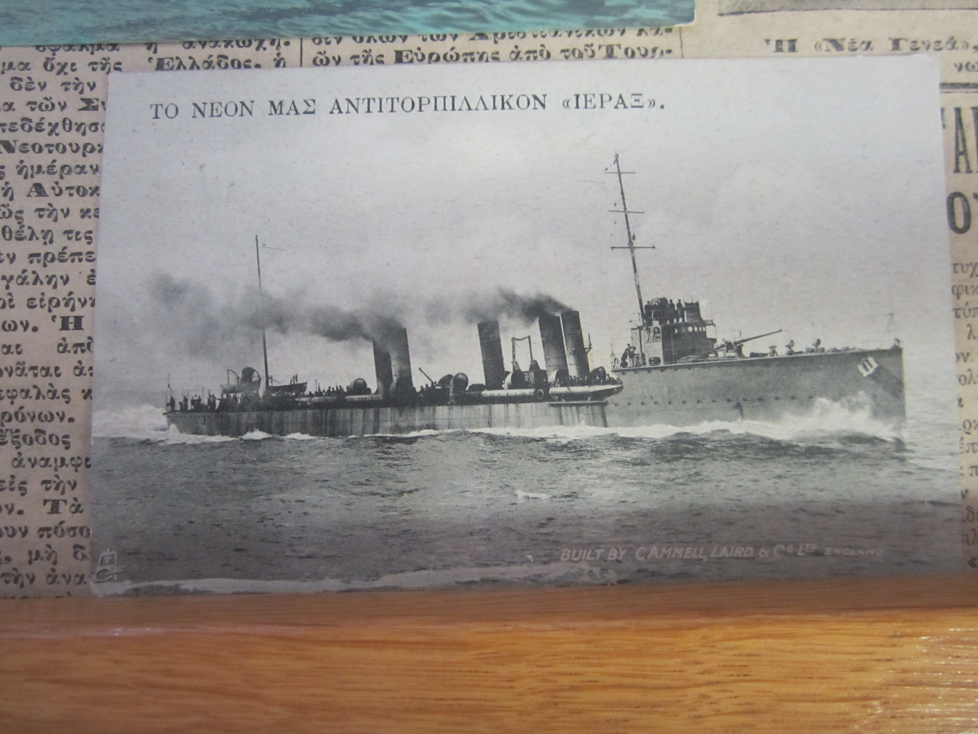 Greek destroyer IERAX. Post card of 1912. National Historic Museum, Athens, Greece